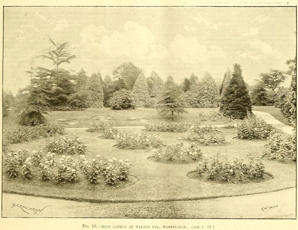 A picture in The Gardener's Chronicle from 1897